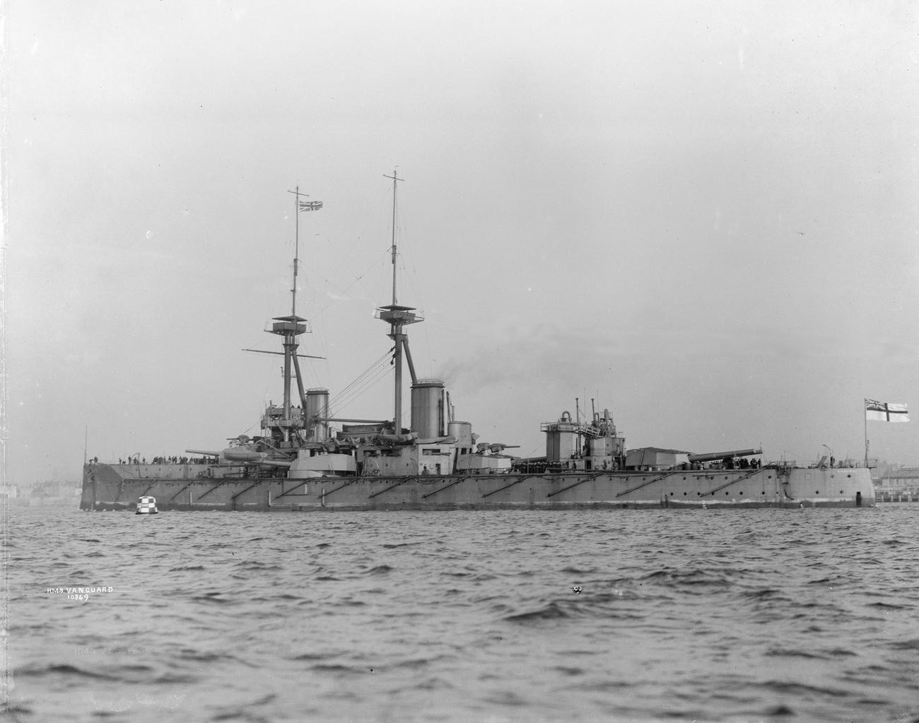 British Battleships of the First World War HMS VANGUARD on completion Unknown commercial photographer employed by Symonds & Co.